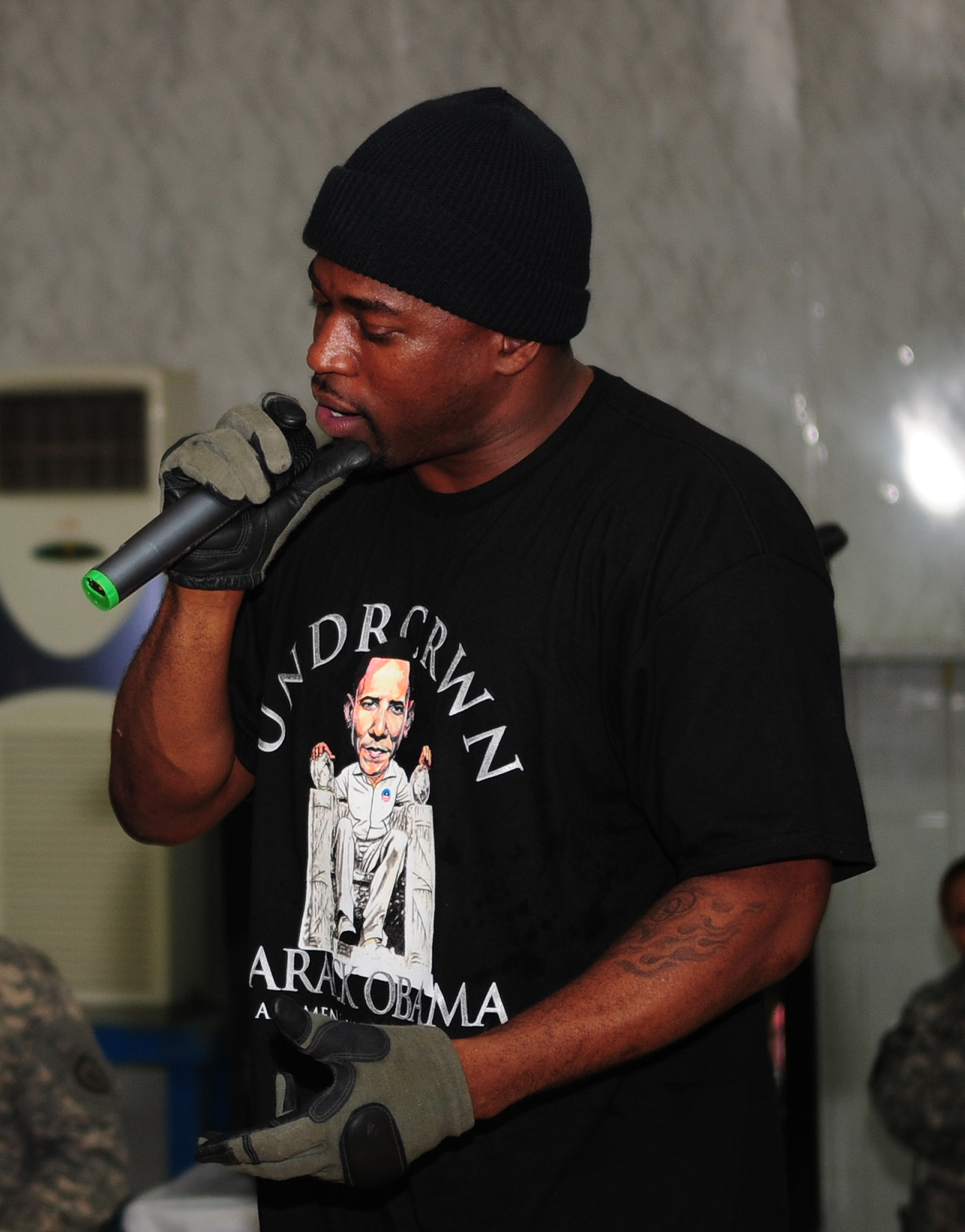 David Banner at Forward Operating Base Brassfield Mora, Iraq